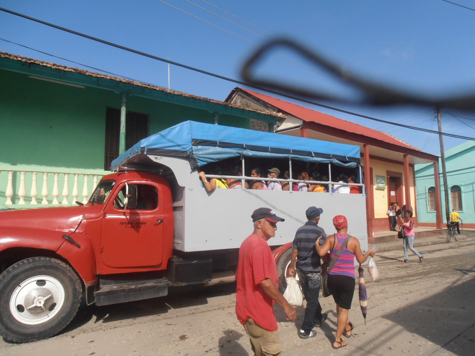 Public transport: Truck bus in Baracoa.